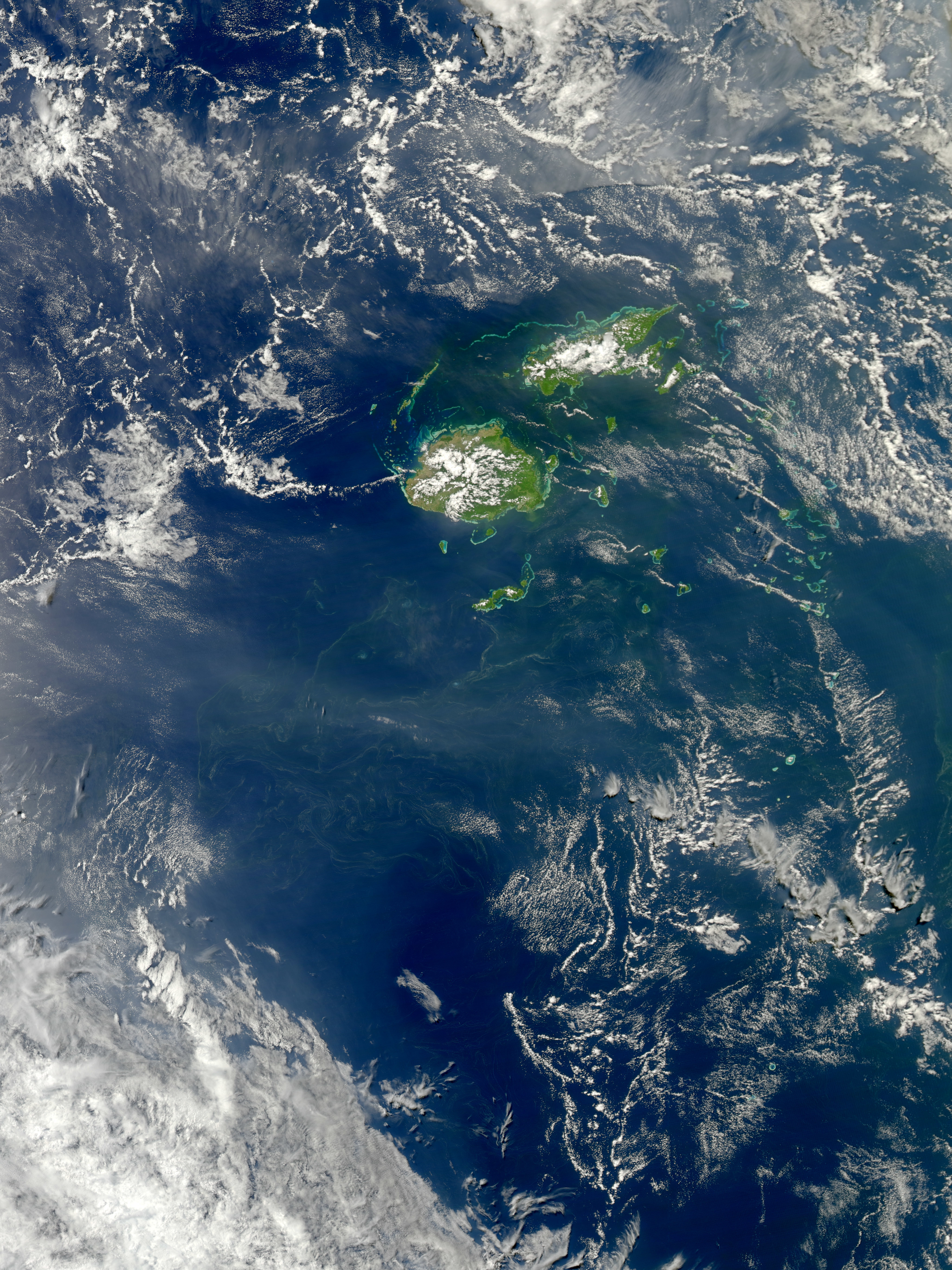 Bacterial bloom south of Fiji on October 18, 2010. Though it is impossible to identify the species from space, it is likely that the yellow-green filaments are miles-long colonies of Trichodesmium, a form of cyanobacteria often found in tropical waters.